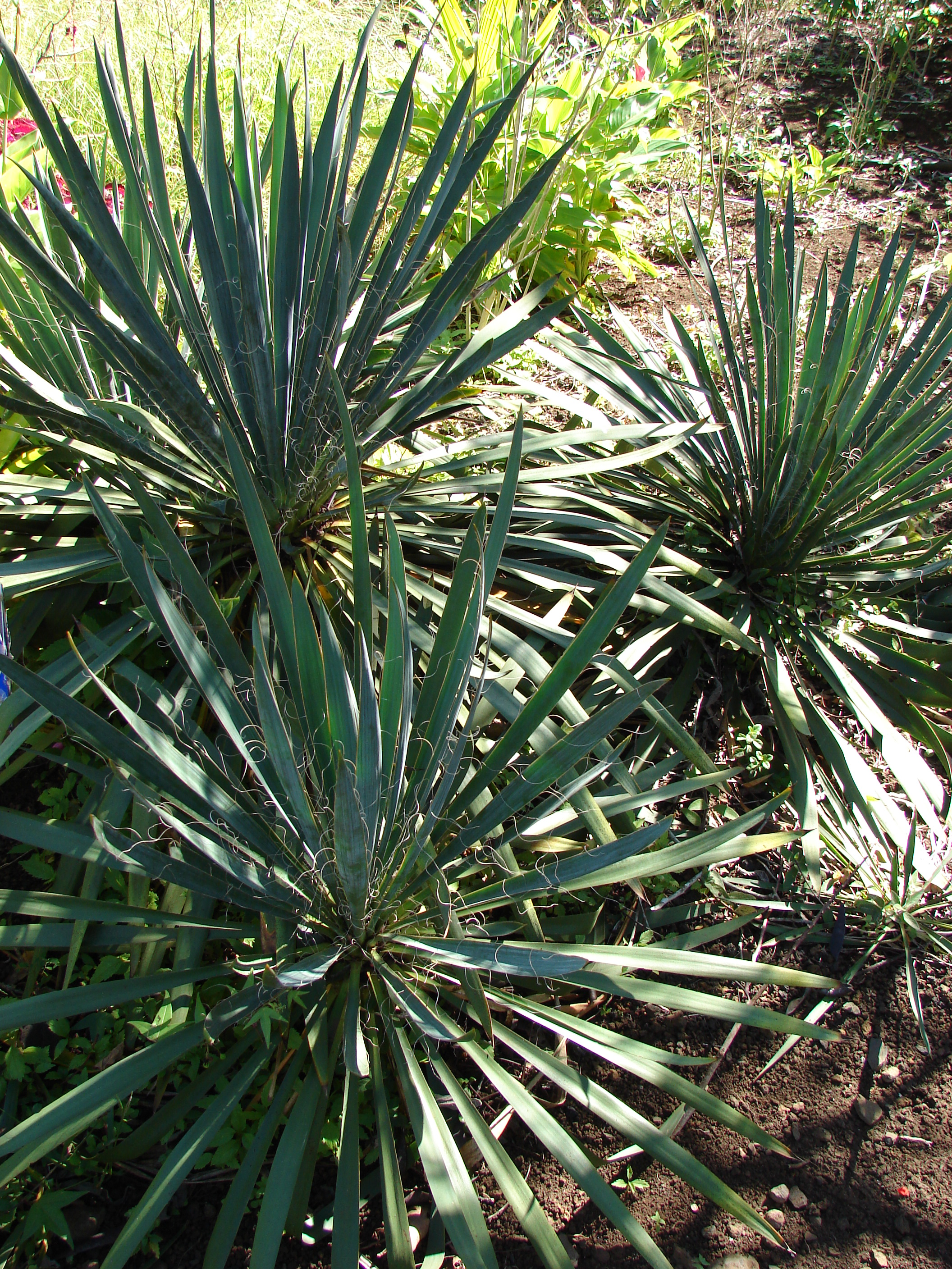 Yucca filamentosa (habit). Location: Maui, Enchanting Floral Gardens of Kula